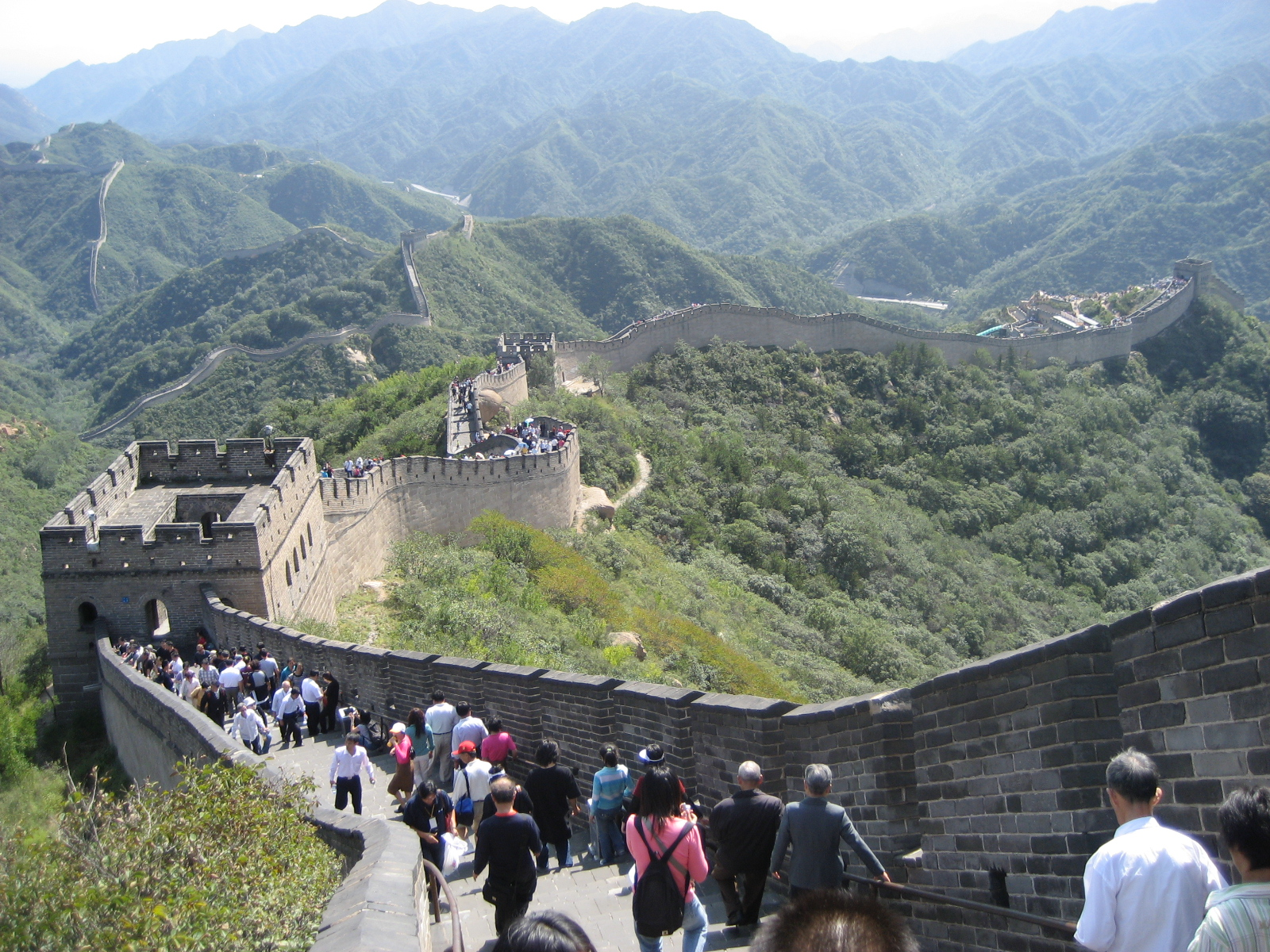 Great Wall of China